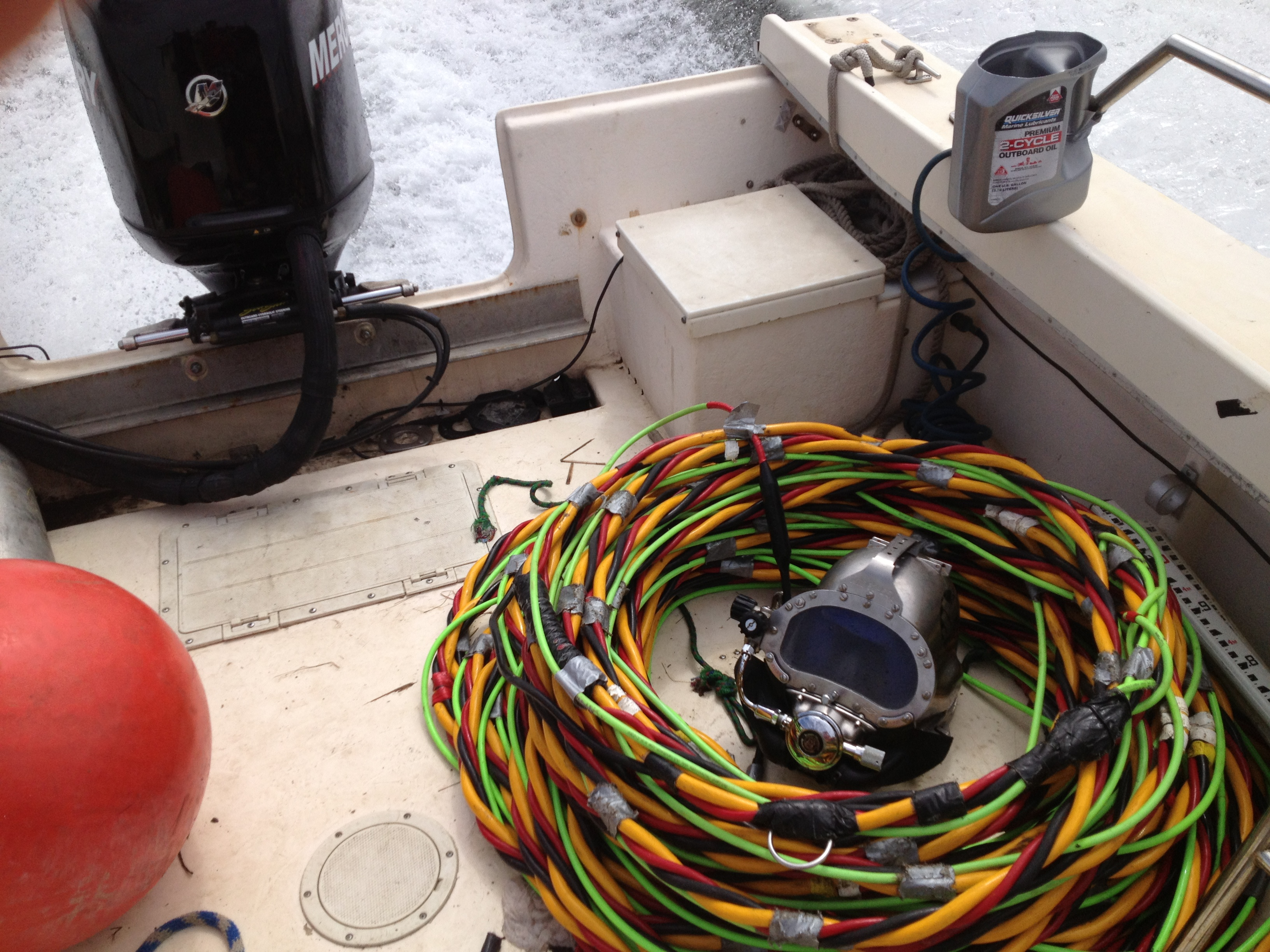 Umbilical cable and surface-supplied dive helmet located on dive boat.